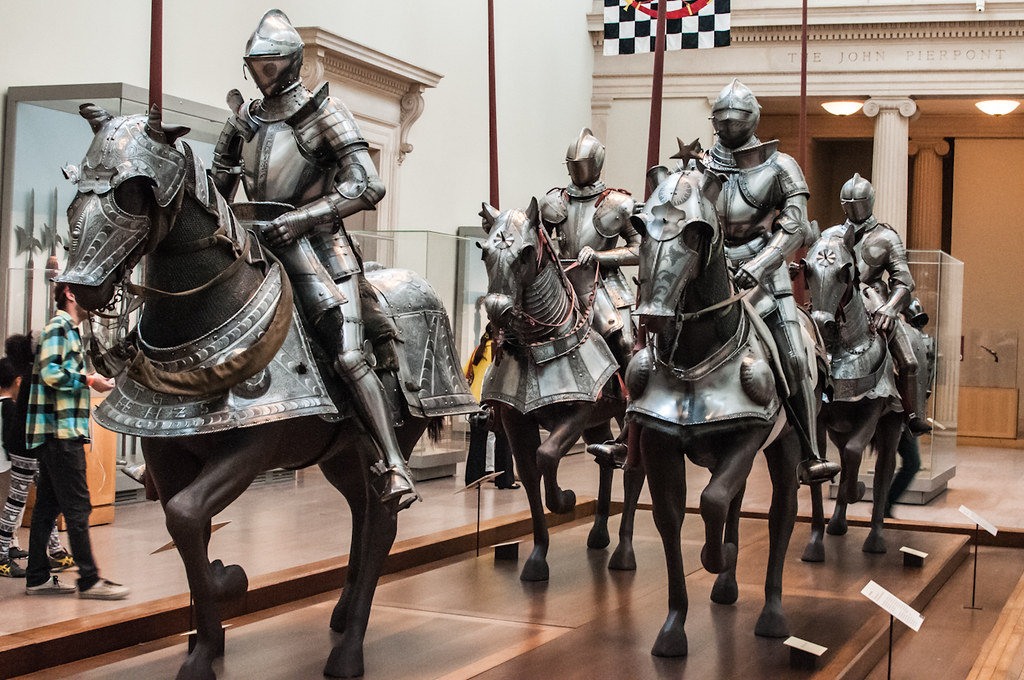 Men at arms / Gendarme armor at the metro museum in NYC